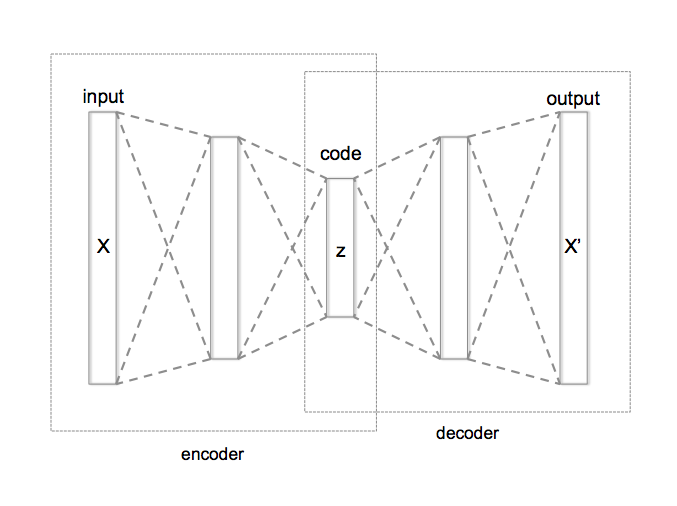 Schematic picture of an autoencoder architecture